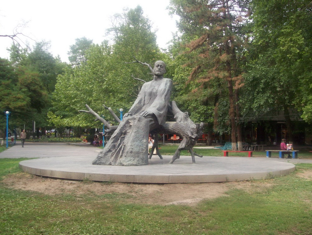 Gomidas statue